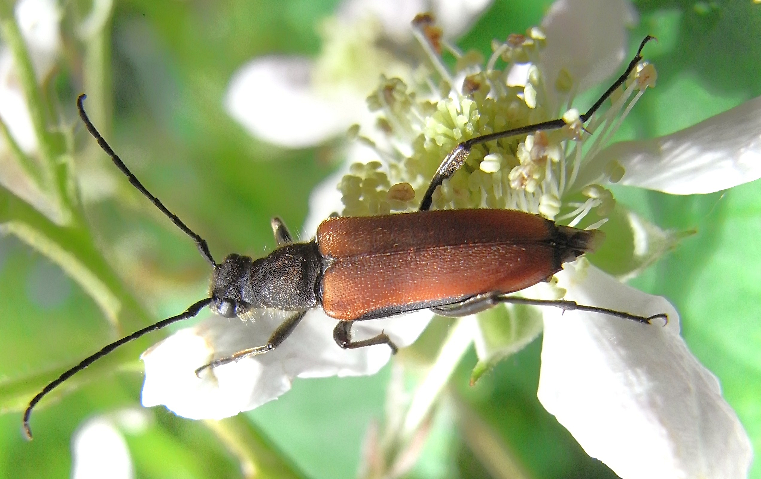 Anastrangalia dubia from Hungary, Zemplen-hills at 2010-06-15Ricoh R8